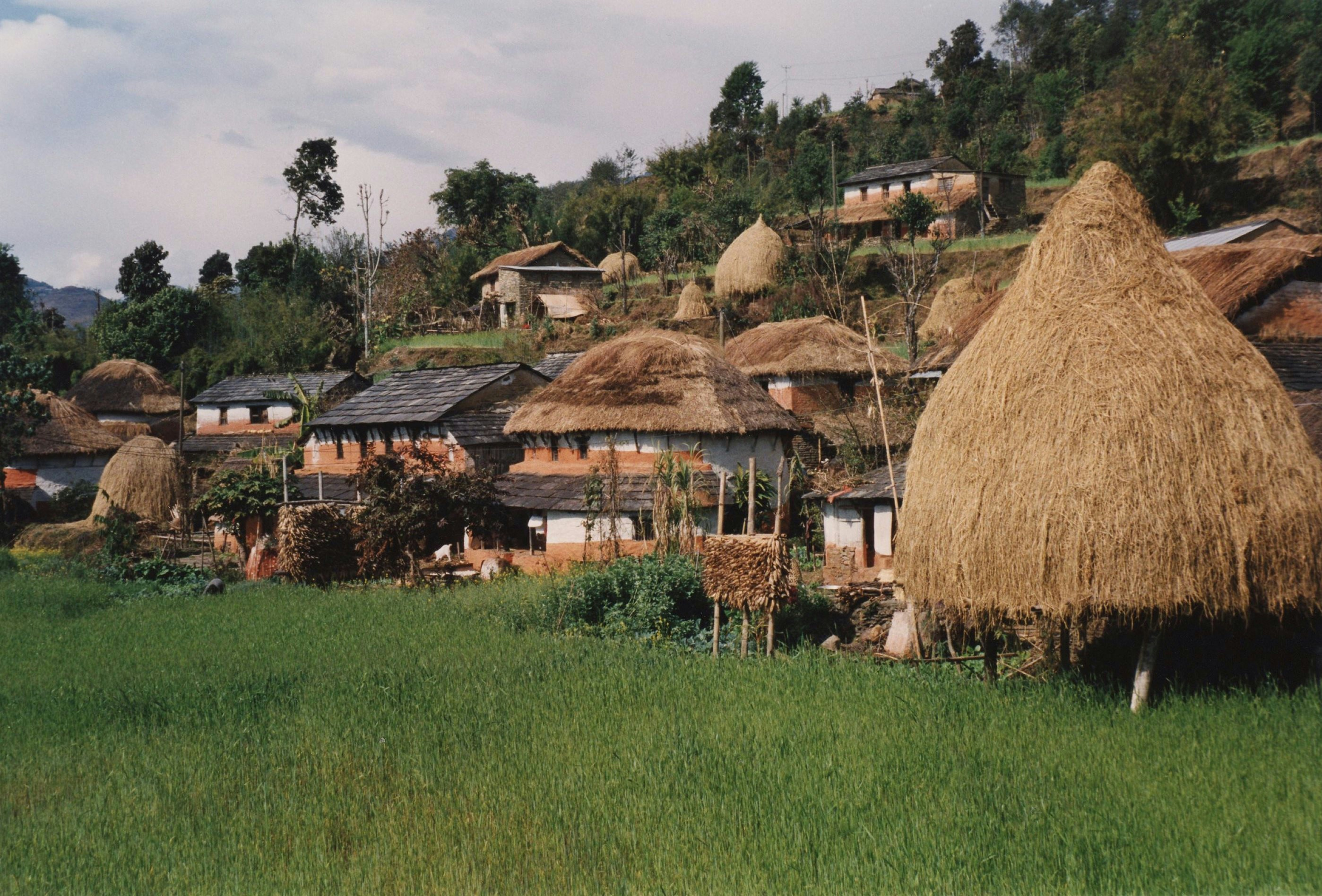 Village of Khare, Kaski District, Nepal